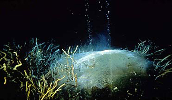 Methane hydrate chunk with dissociating methane gas